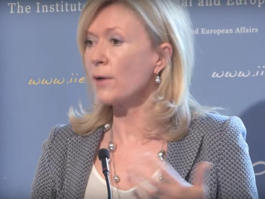 Deirdre Curtin speaking about European elections, May 2014